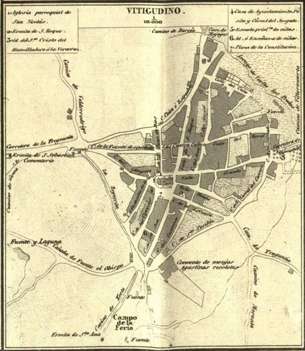 Map of Vitigudino cropped from the 1867 province of Salamanca map by Francisco Coello